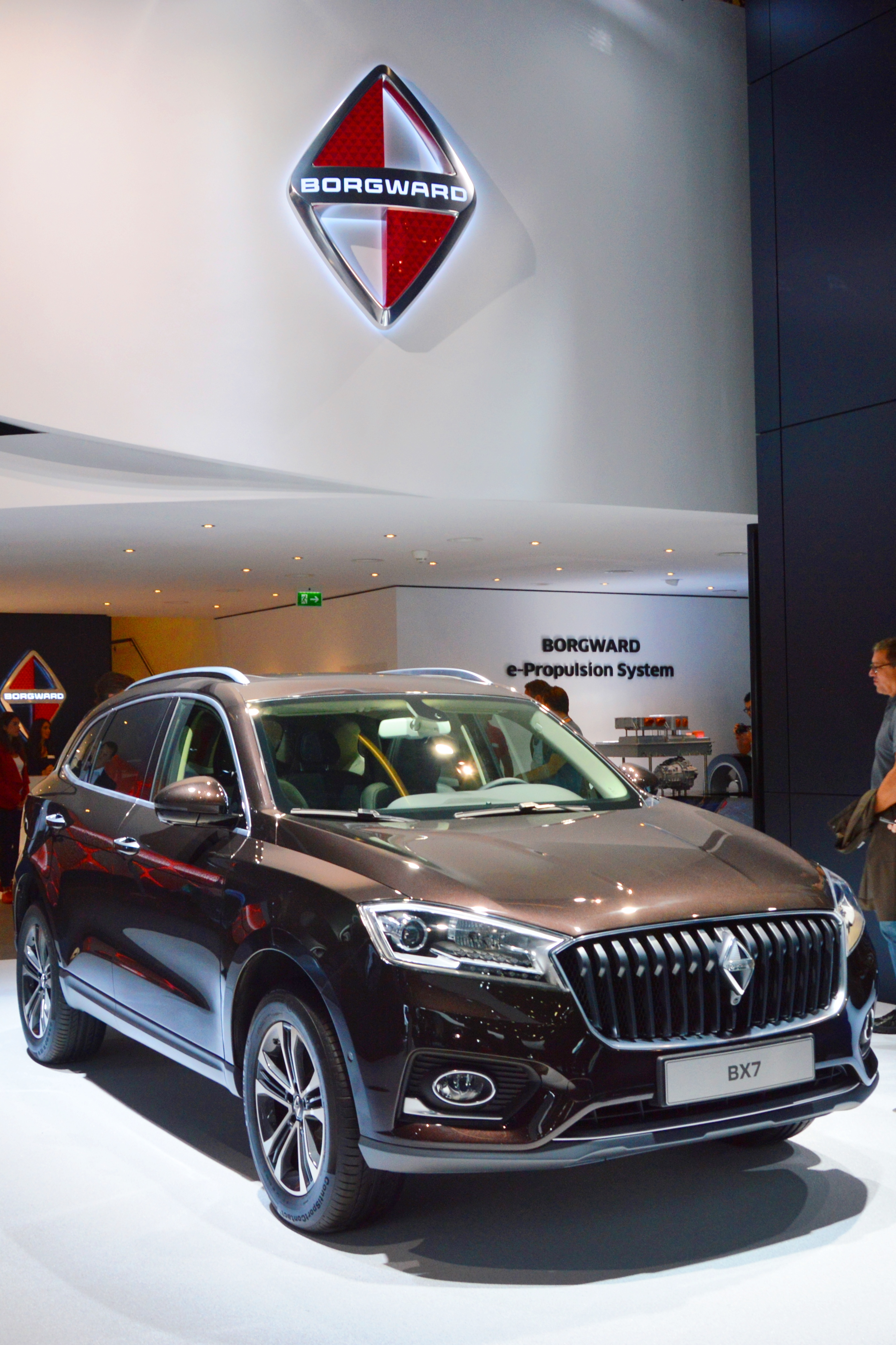 Borgward BX 7. Photo taken at exhibition IAA 2015 in Frankfurt, Germany.